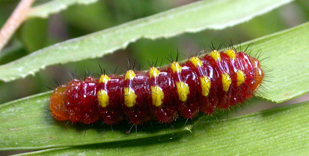 Atala, Eumaeus atala, larva (caterpillar), Palm Beach County, Florida, United States